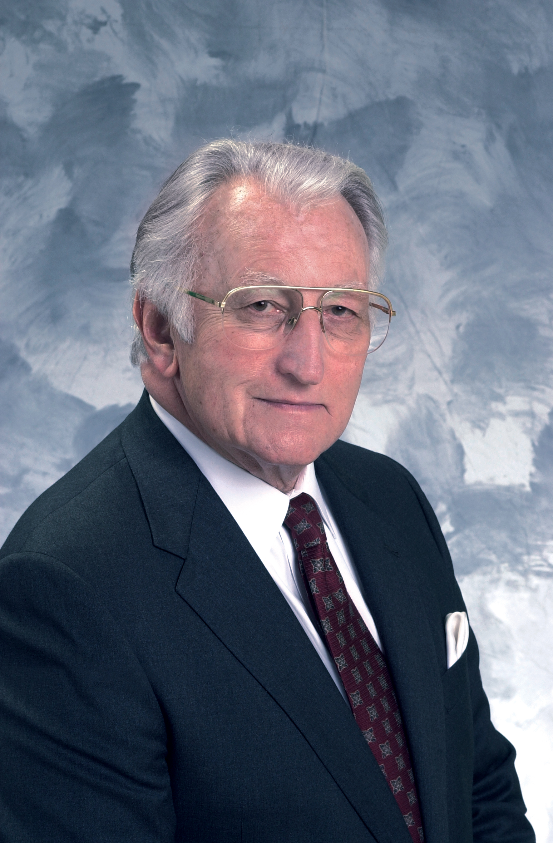 Studio shot of Dr. Pumerantz